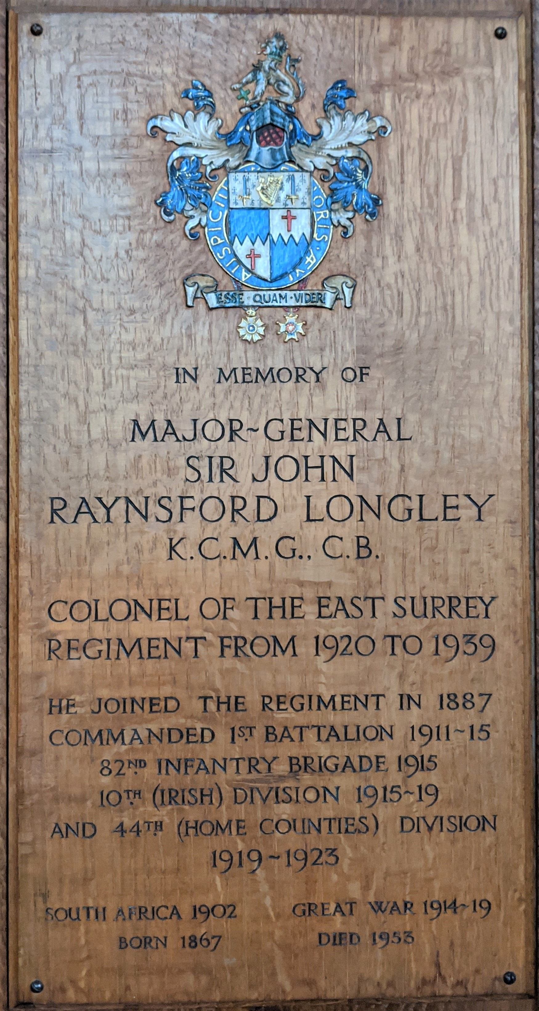 Memorial plaque to Major General Sir John Raynsford Longley in East Surrey Regiment chapel, All Saints Church, Kingston upon Thames, Surrey